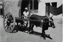 kattai vandi